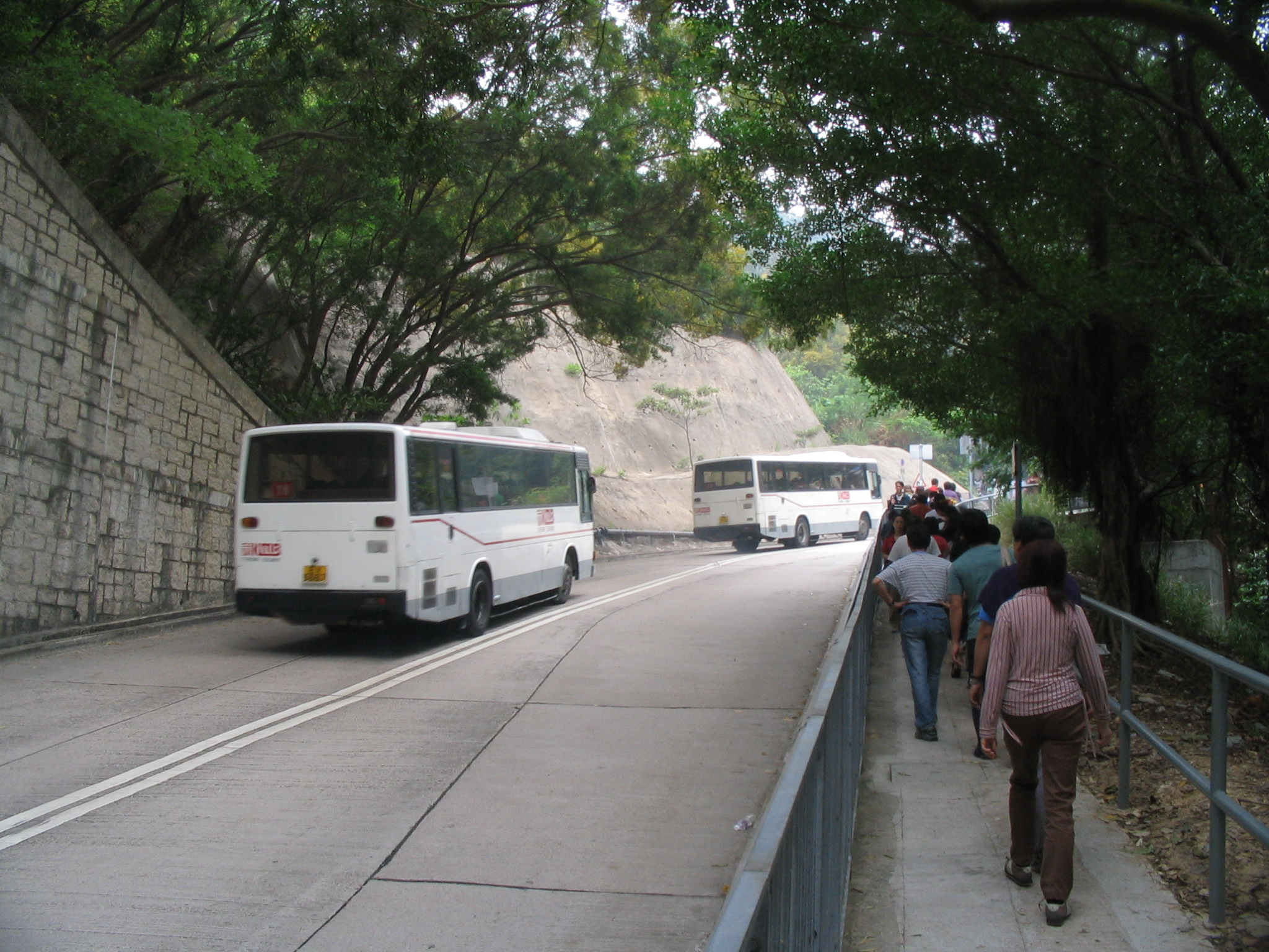 Photo of Wilson Trail Stage 3 at Devil's Peak